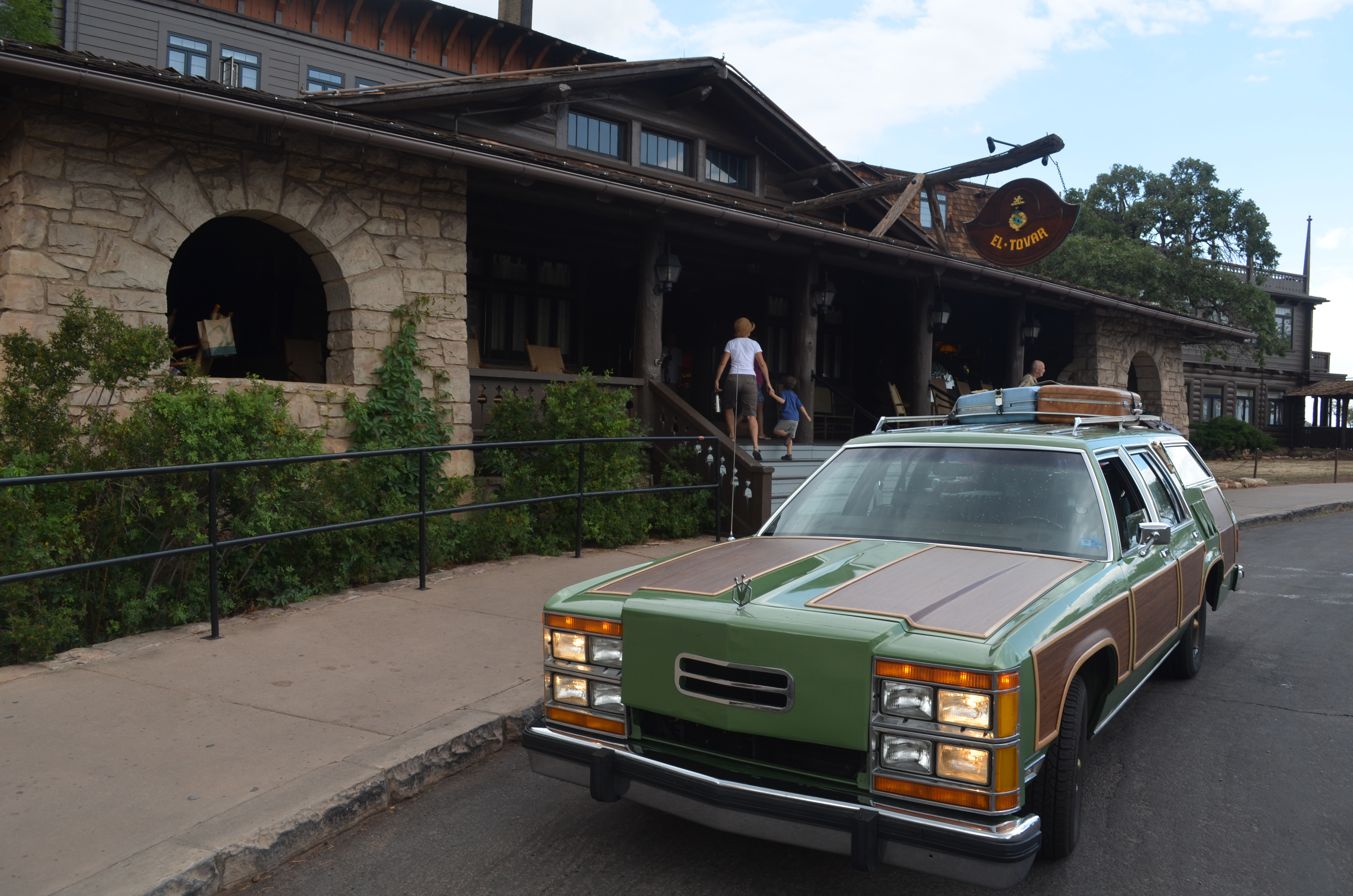 Griswold Wagon Queen Family Truckster - Vacation Movie